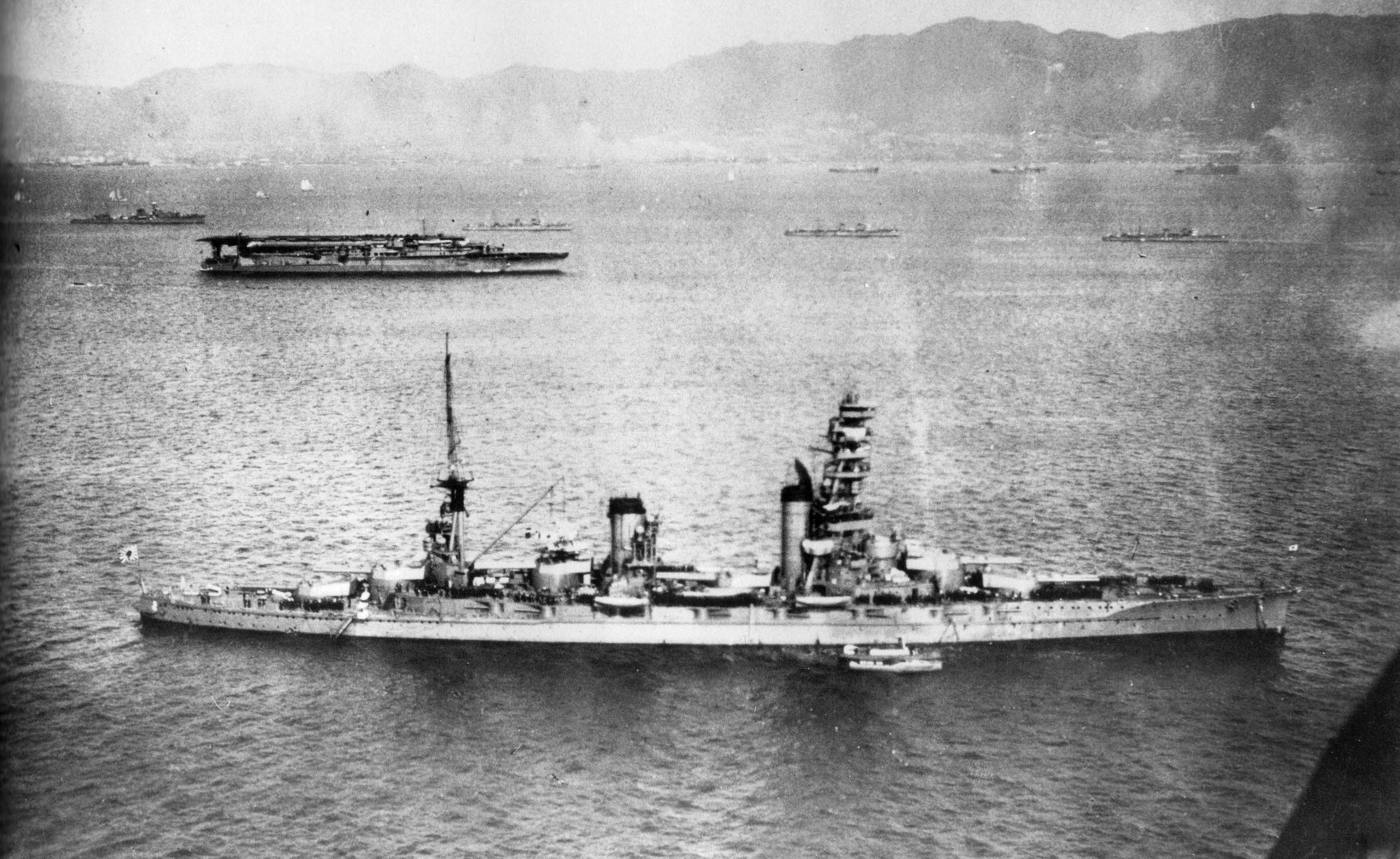 Imperial Japanese Navy battleship Yamashiro (foreground) and aircraft carrier Kaga (background) in Kobe Bay, Japan prior to a fleet review. The source does not idenfity the carrier in the background but it appears to be Kaga because of the long, horizontal funnel which was unique to that ship.